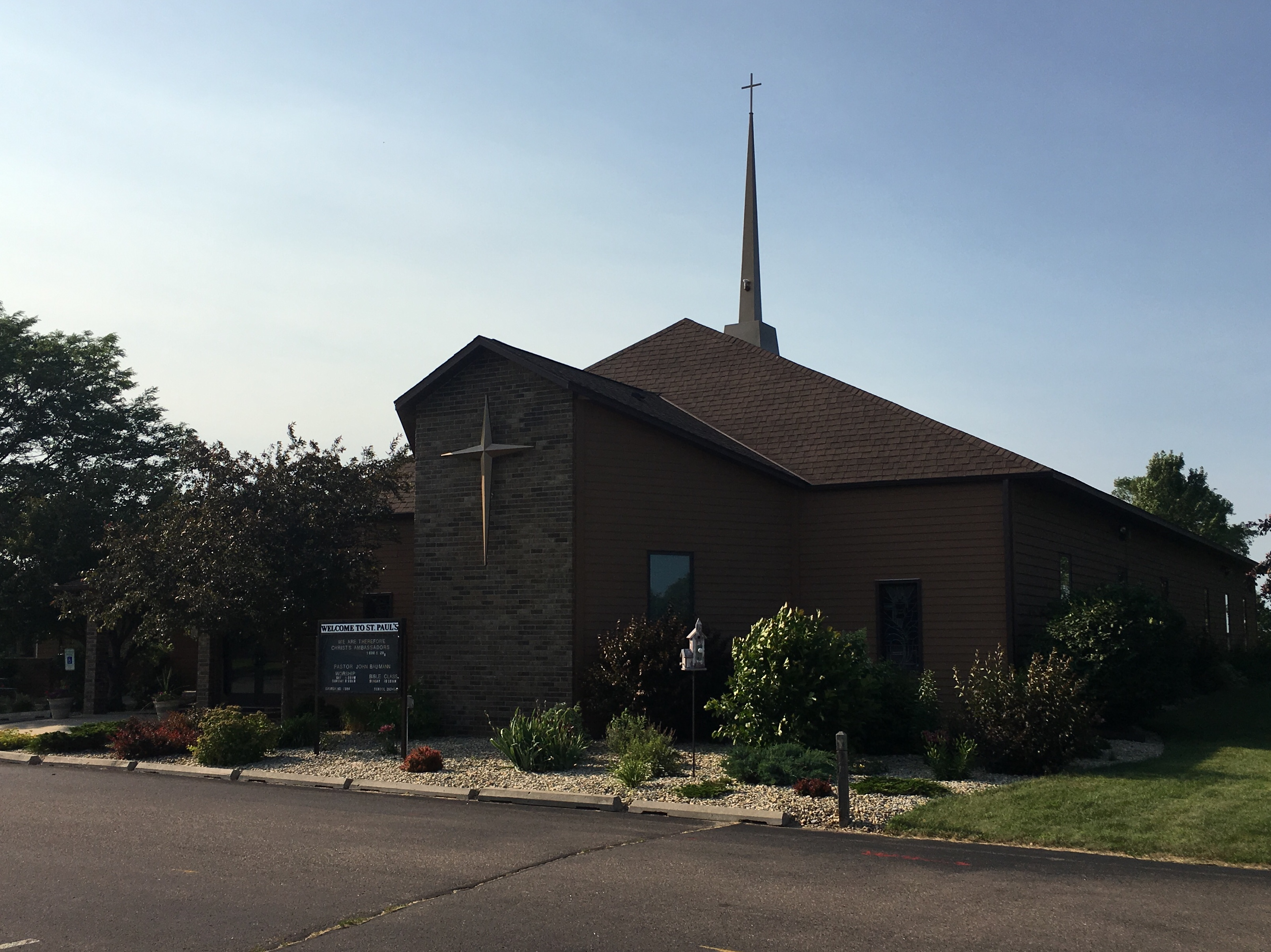 St. Paul's Lutheran Church in Cannon Falls, MN